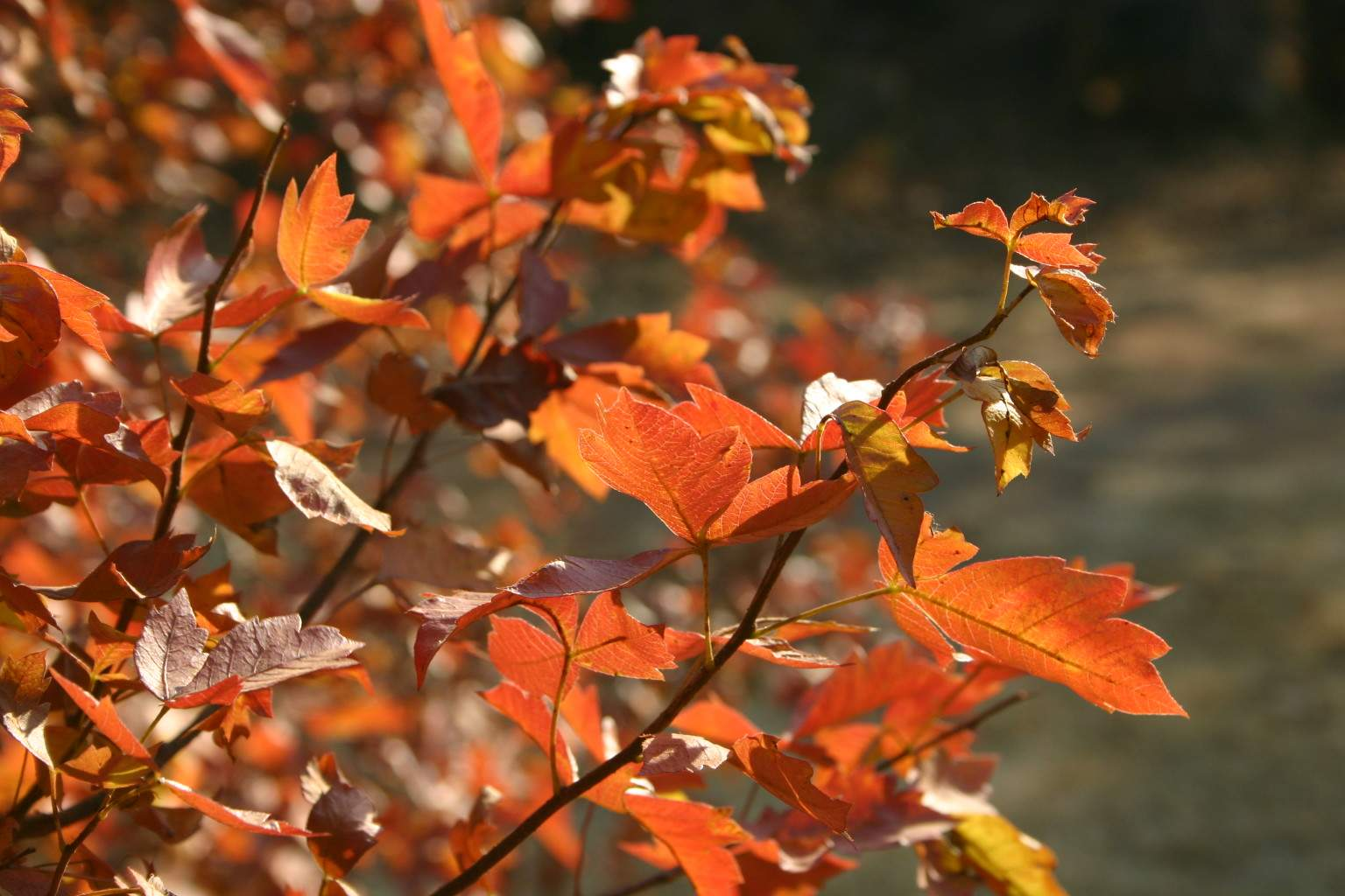 Autumn leaves of Searsia dentata (syn. Rhus dentata), Gauteng, South Africa